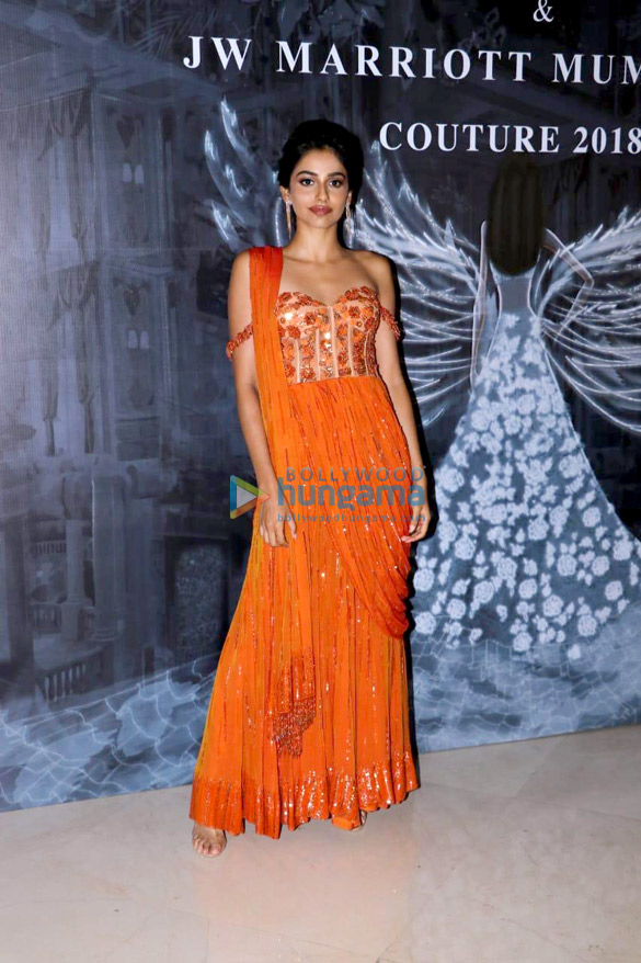 Banita Sandhu graces Manish Malhotra’s fashion show, Aug 1, 2018